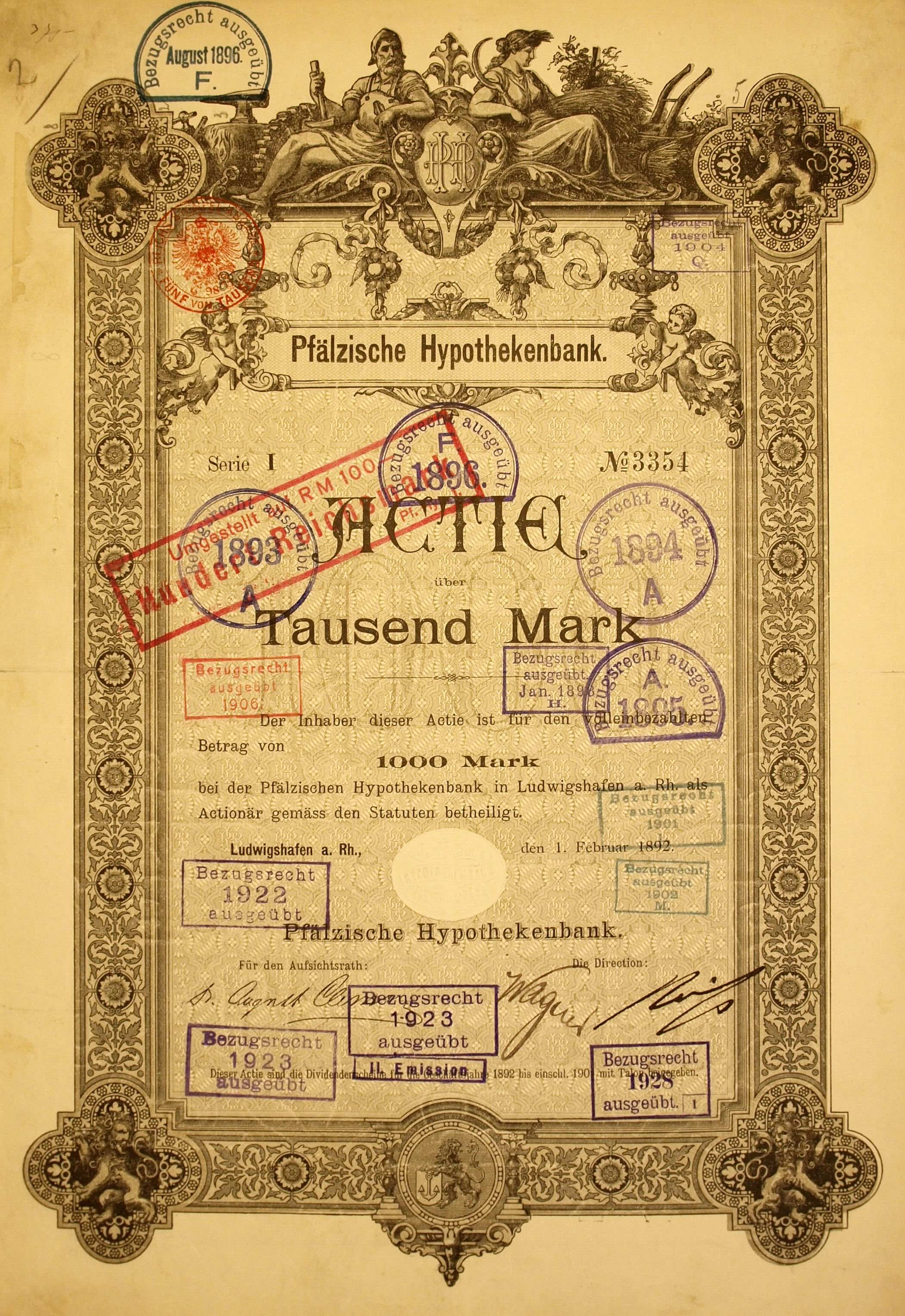 Share of the Pfälzische Hypothekenbank, issued 1. February 1892